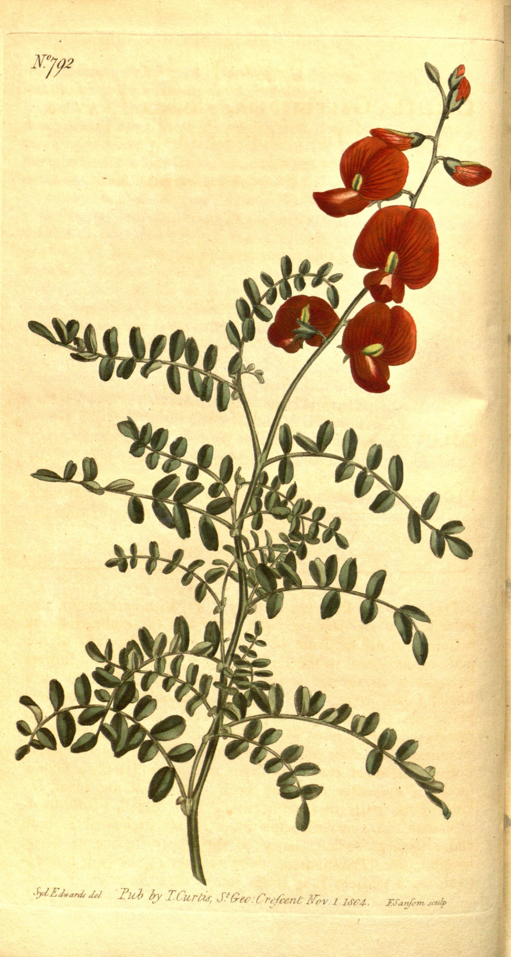 No. 792 depicting the plant Swainsona galegifolia and given the title: Small-leaved Bladder-senna